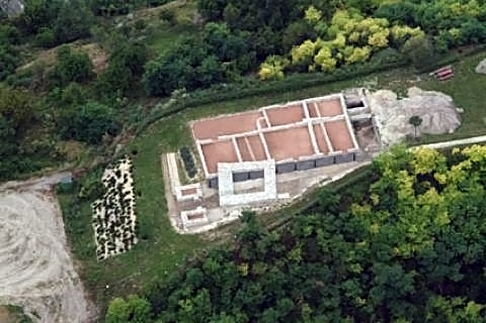 Dunakömlőd, Paks, Tolna County, Hungary, aerialphotography